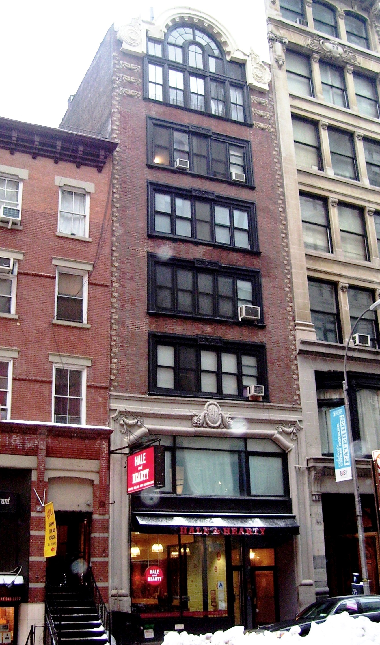 11 East 17th Street between Fifth Avenue and Broadway in the Flatiron District neighborhood of Manhattan, New York City is within the Ladies' Mile Historic District.